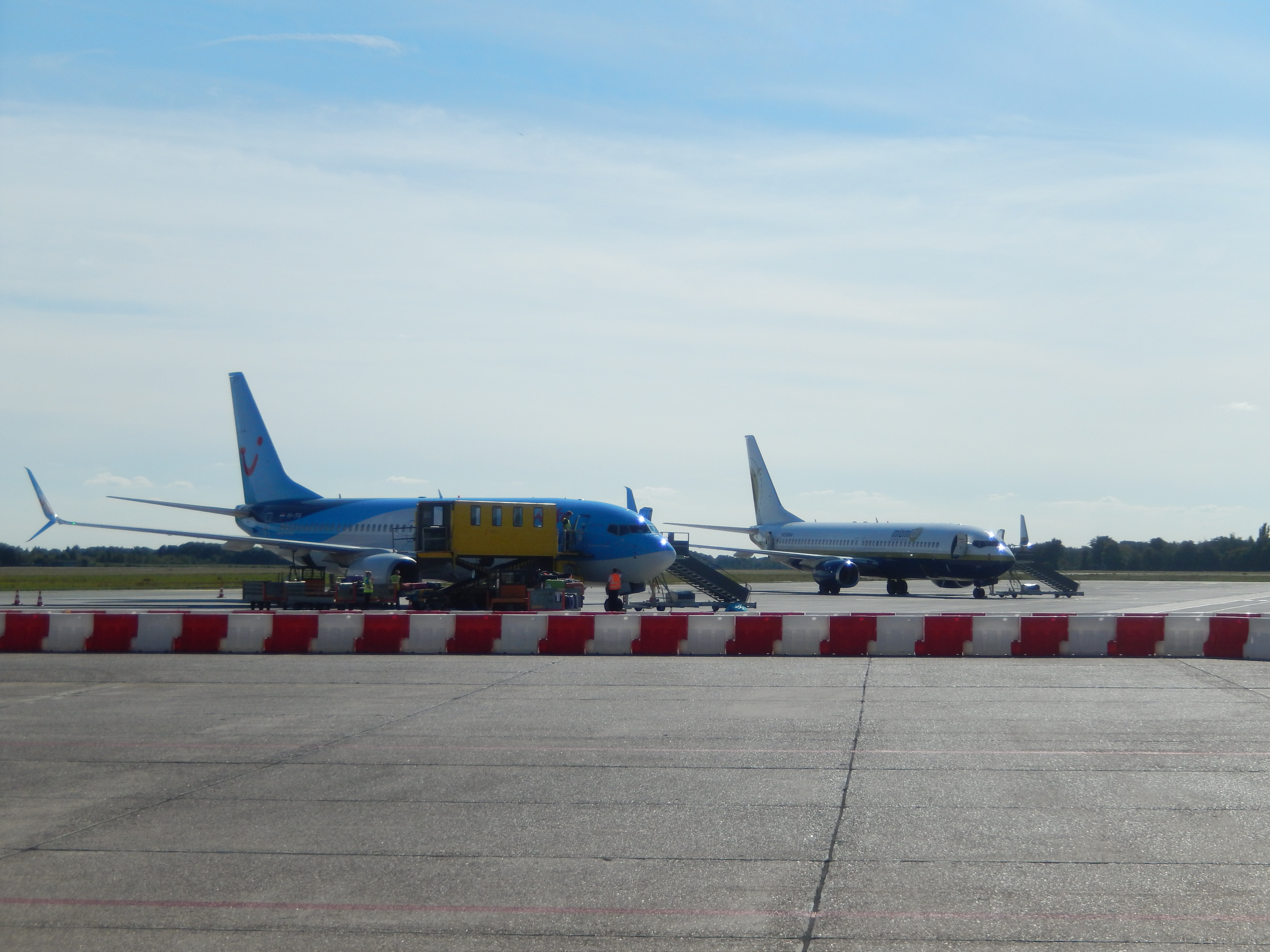 A plain from Arke origin Antalya and a Miami Air origin Gander International (Canada).